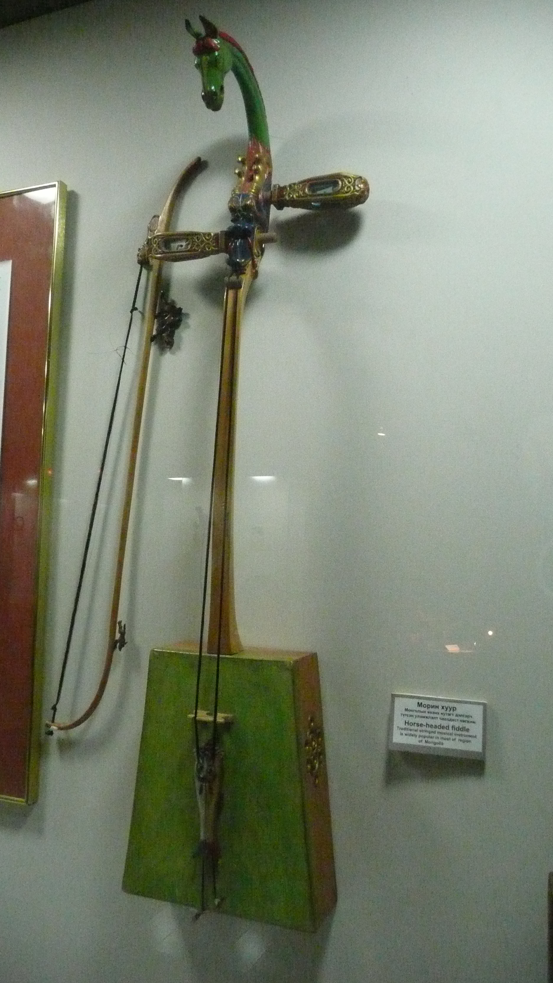 Morin Khuur - Horse-headed fiddle, photo taken in the National Museum of Mongoia in Ulan Bator